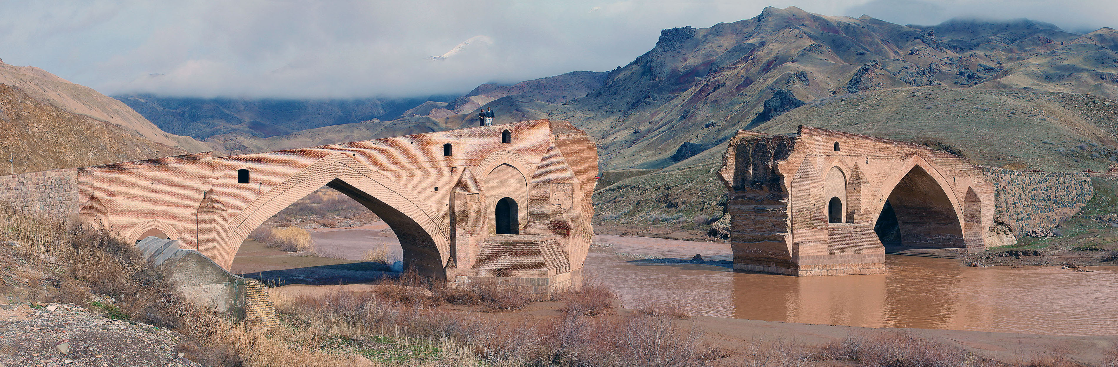 Bridge Kizil Hauzen